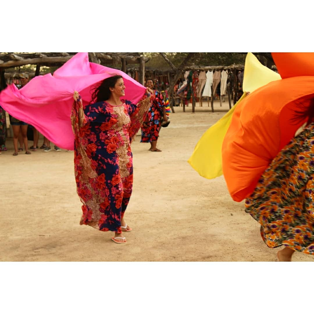 Represent a important dance for the wayu culture and the happiness with doing Esta fotografía fue tomada en el municipio colombiano con código 73001.